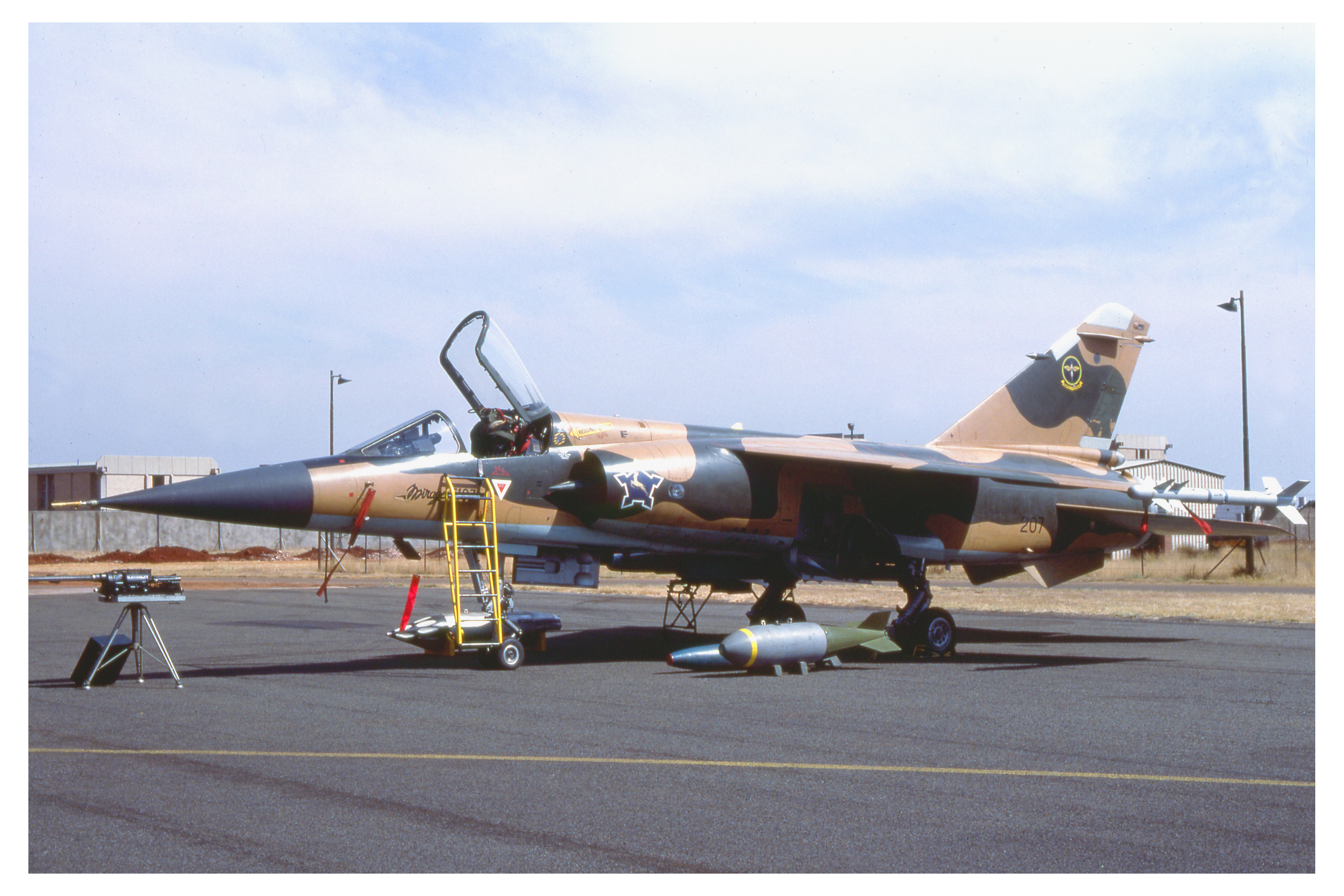 Classic SAAF during the 1970s and 1980s. The SADF was a powerhouse in the Cold War and more than a match for any country in Africa. SA was a ally for the West and kept the Communists at bay.